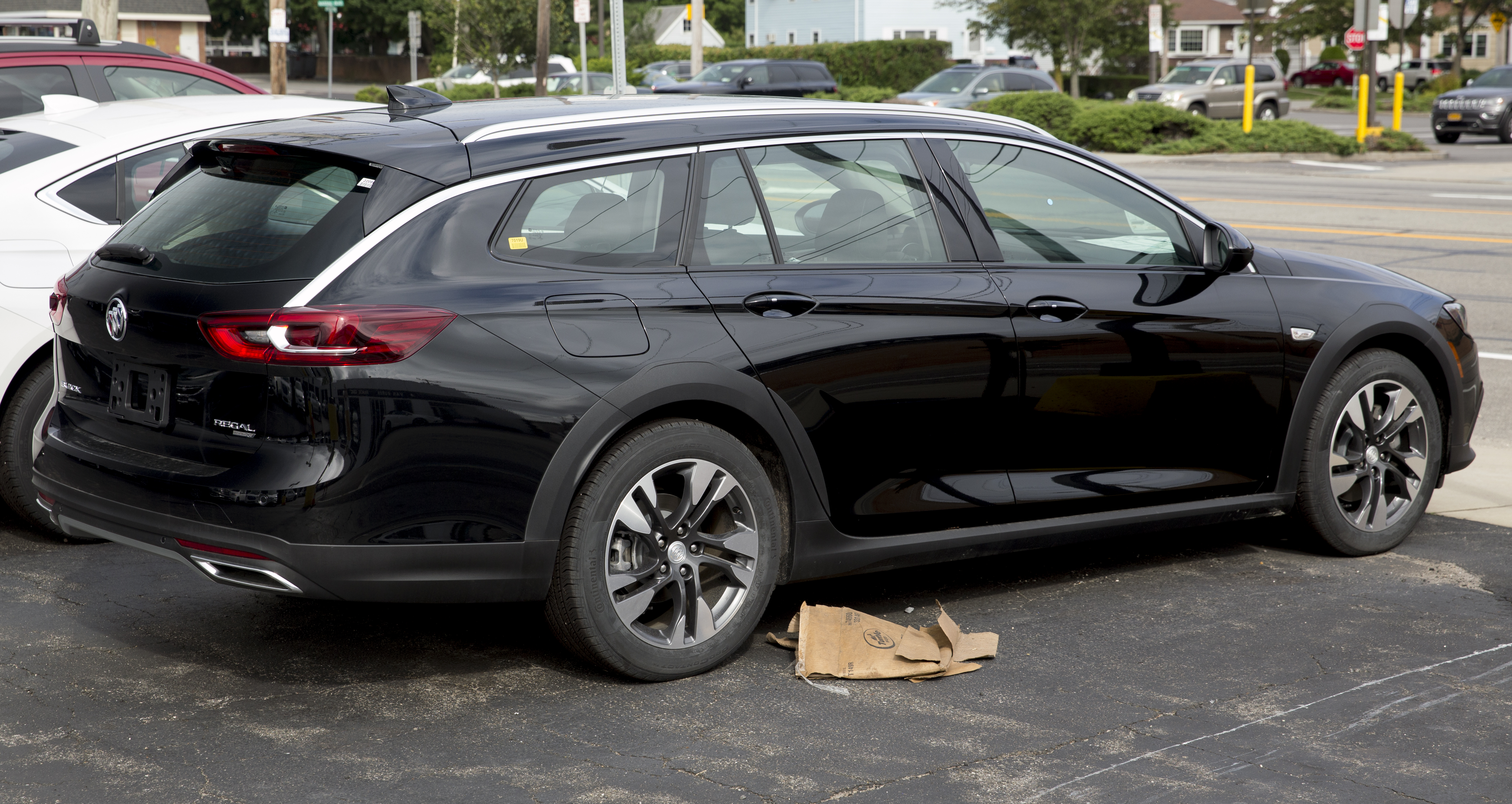 2018 Buick Regal TourX Preferred AWD. An Opel, really, but nice to see a proper wagon on offer.